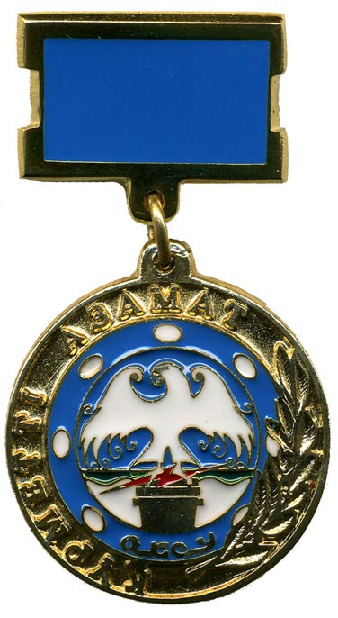 The badge of an "Honorary Citizen of the City of Aksu " (Pavlodar Region, Kazakhstan)